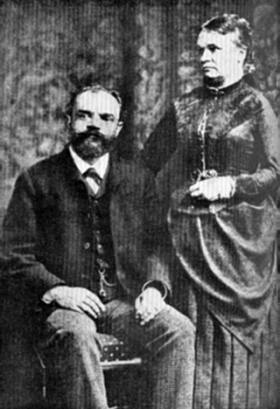 Czech Composer Antonín Dvořák (1841-1904) with his Wife Anna in London in 1886